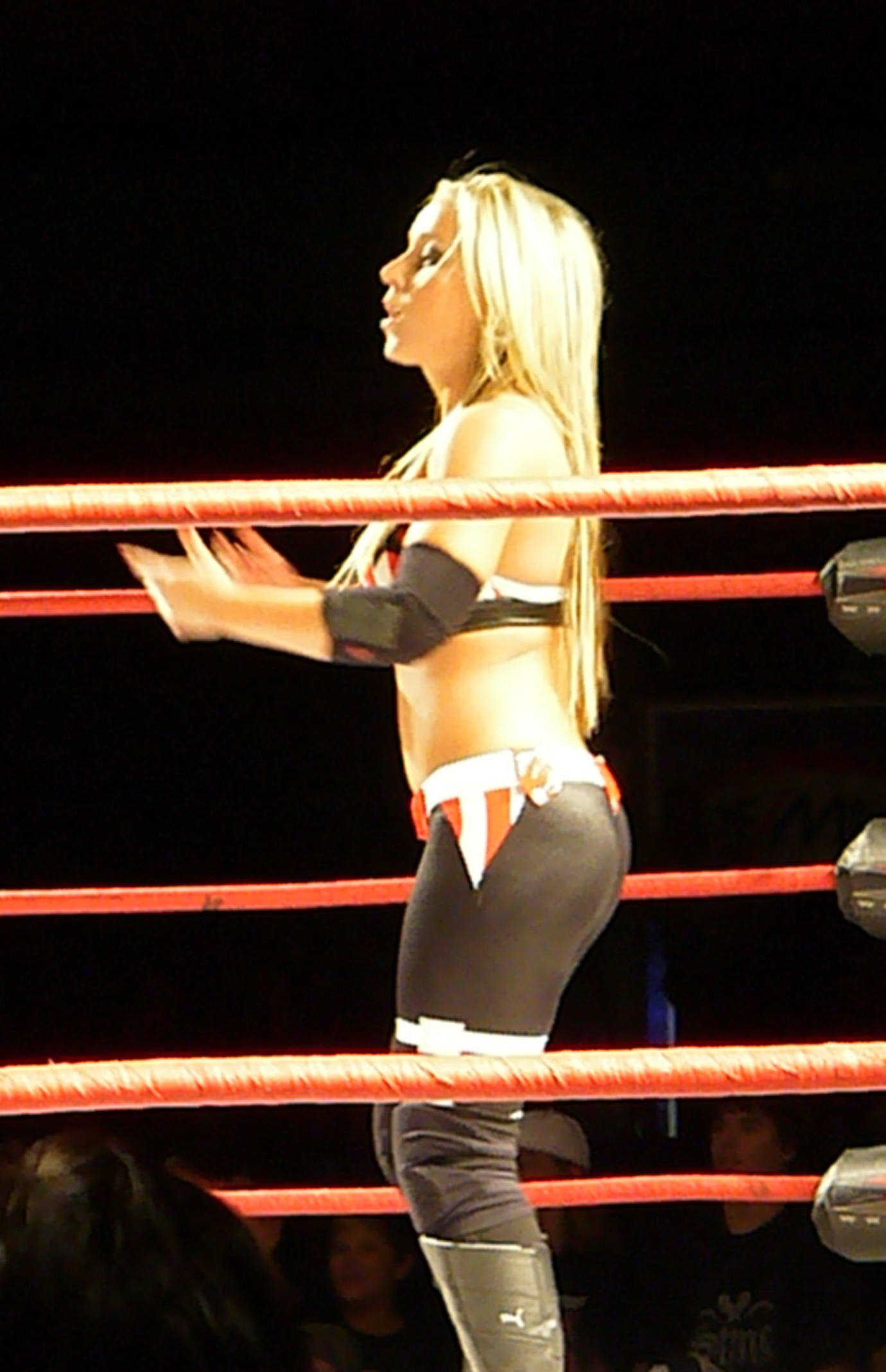 Professional wrestler Taylor Wilde